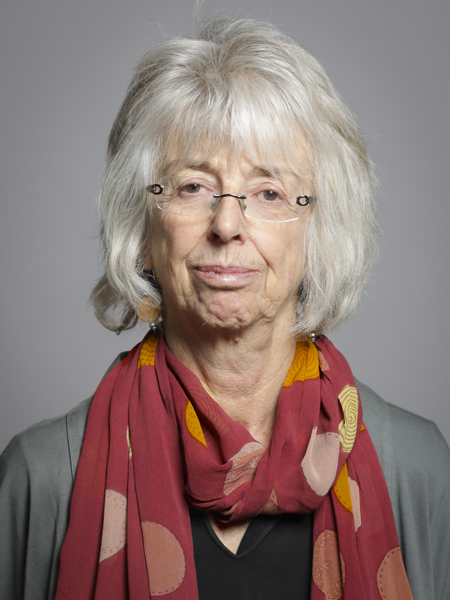 Official portrait of Baroness Lister of Burtersett 3×4 portrait of Baroness Lister of Burtersett